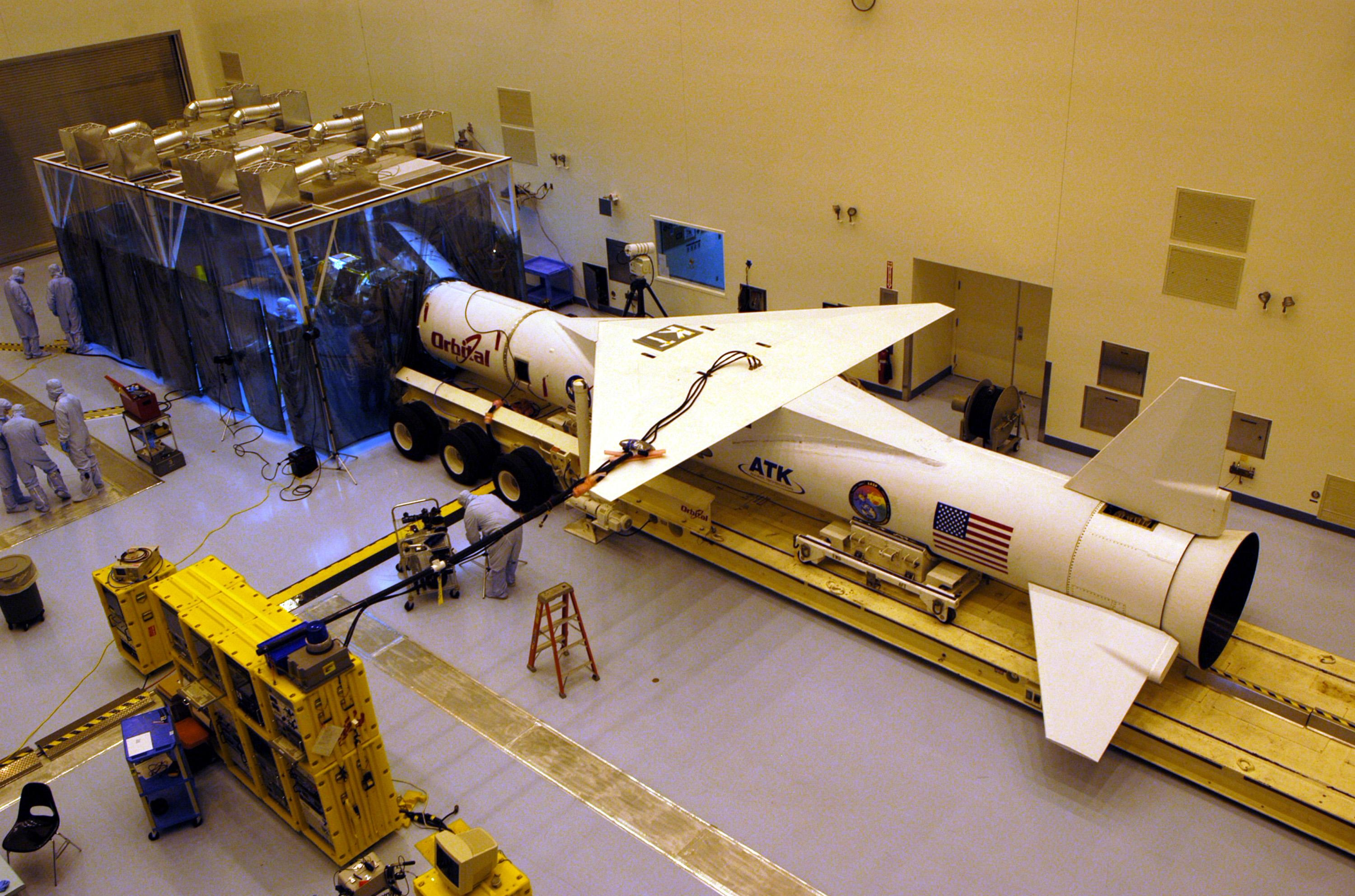 In the Multi-Purpose Processing Facility, the Pegasus launch vehicle is ready for installation of the Solar Radiation and Climate Experiment (SORCE) satellite. Built by Orbital Sciences Corporation (OSC), SORCE will study and measure solar irradiance as a source of energy in the Earth's atmosphere. The launch of SORCE is scheduled for Jan. 25 at 3:14 p.m. from Cape Canaveral Air Force Station, Fla. The drop of the Pegasus will be from OSC's L-1011 aircraft at an altitude of 39,000 feet over the Atlantic Ocean approximately 100 miles east-southeast of Cape Canaveral.